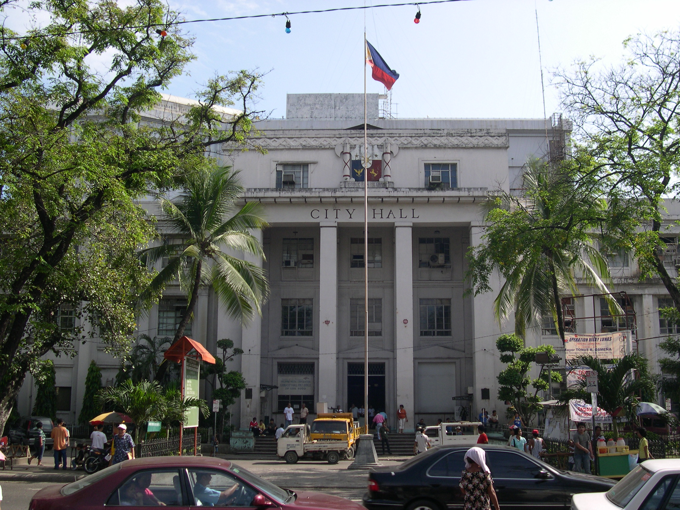 The City Hall of Cebu City, Philippines Picture taken by Magalhães on March 23rd 2006